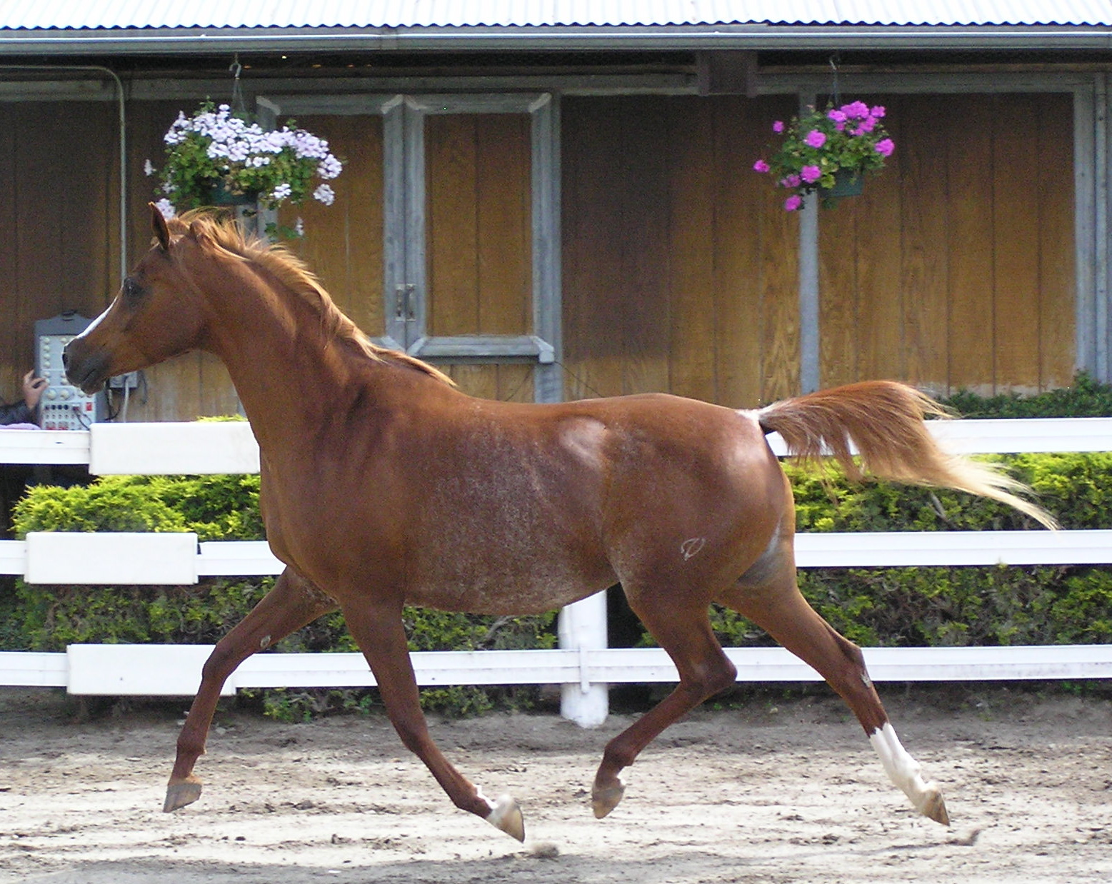 Sweet Klassique V, Purebred Arabian mare, chestnut coat with rabicano patterning. (*Fairview Klassique X Sweet Shalimar V [*Ali Jamaal X Sweet Inspiration V]) Foaled: 5 March 1998. Owned by Sheila Varian, Varian Arabians. Arroyo Grande, CA, USA. Image taken Central California, 2010